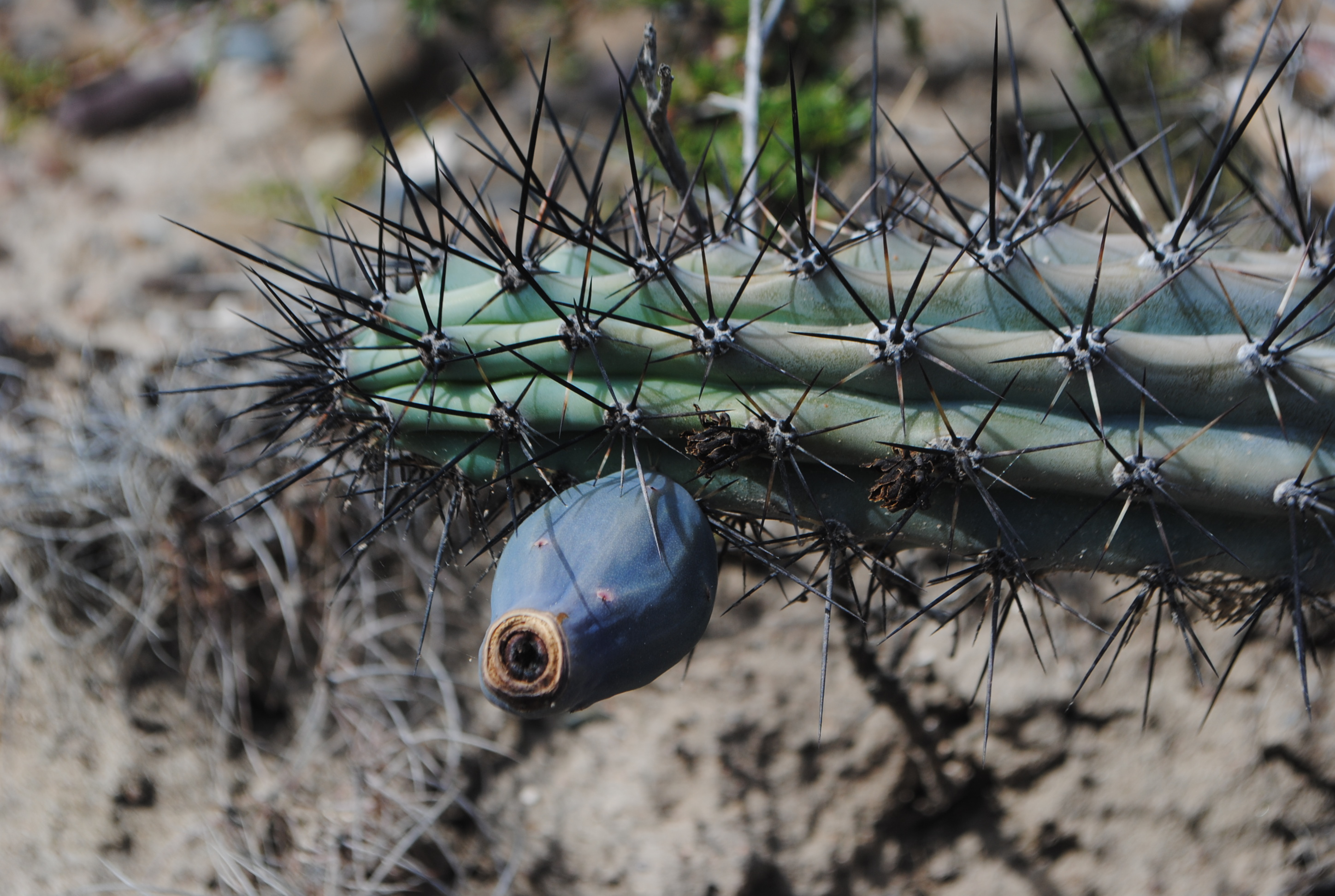 Cereus aethiops known as "Cardoncito" with fruit, photo taken at Colonia Cilavert, Las Grutas, Río Negro province, Patagonia, Argentina